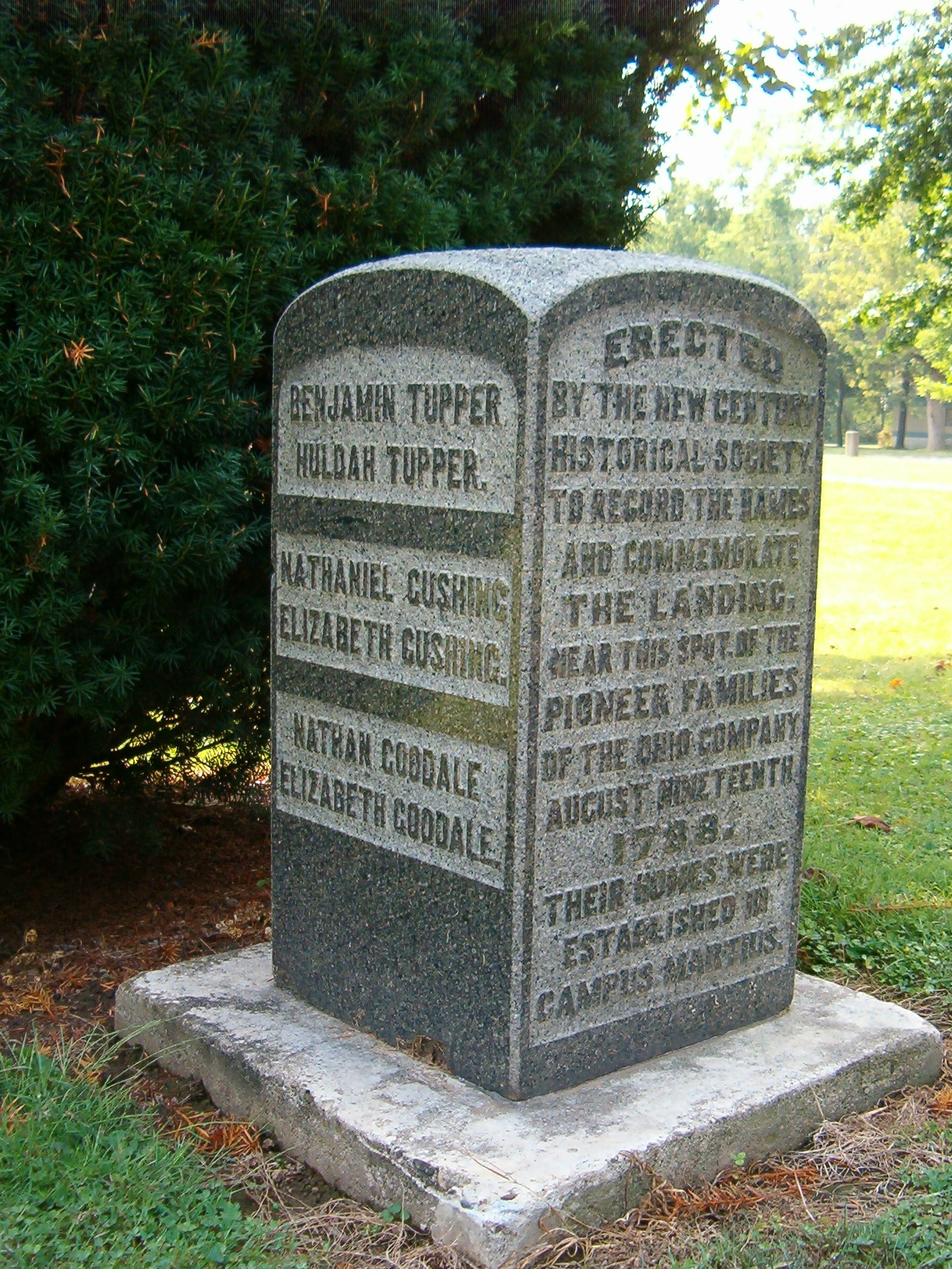 Monument to the first American pioneer families who arrived at the mouth of the Muskingum River, at the confluence of the Ohio and Muskingum rivers, during August 1788. These first families arrived several months after the first forty-eight pioneer men, and helped establish Marietta, Ohio as the first permanent American settlement of the new United States in the Northwest Territory. The monument is located on Front Street in Marietta, Ohio, near the Ohio River Museum. The photo was taken during August 2008. I took this photo, and I release to the public domain. ColWilliam (talk) 00:07, 1 September 2008 (UTC)